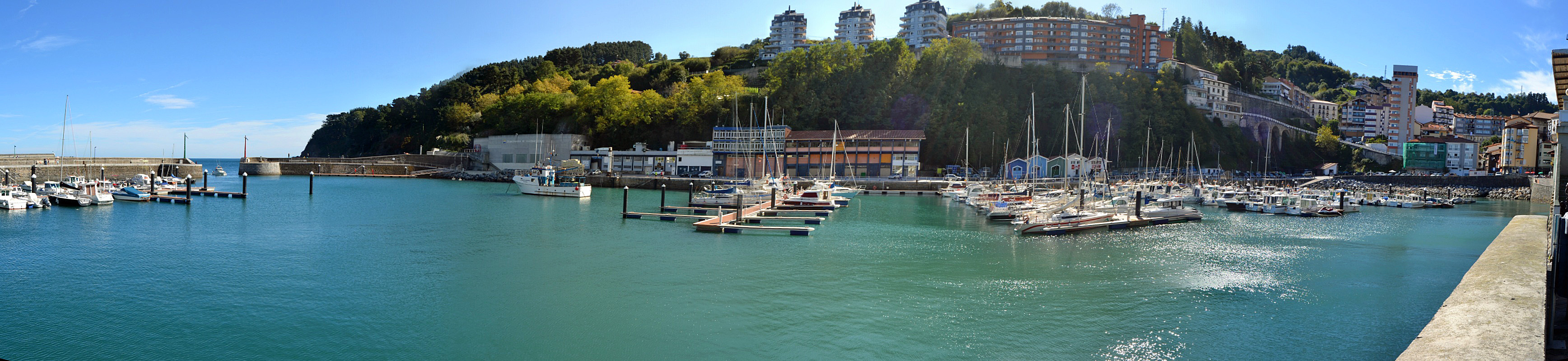 Port of Mutriku. Gipuzkoa, Basque Country.